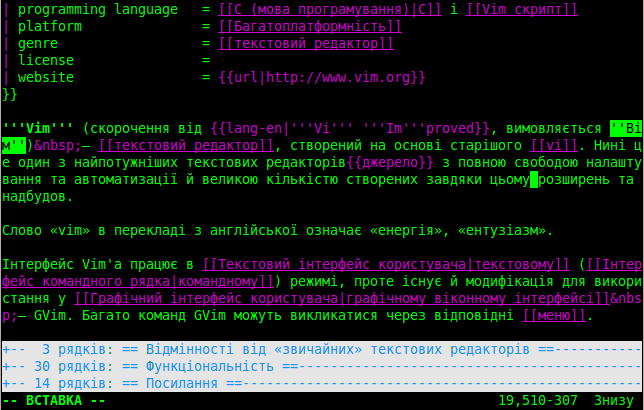 The VIM 7.3.429 text editor with a Ukrainian version of the user interface. Text in the editor is an excerpt from Vim article in Ukrainian Wikipedia